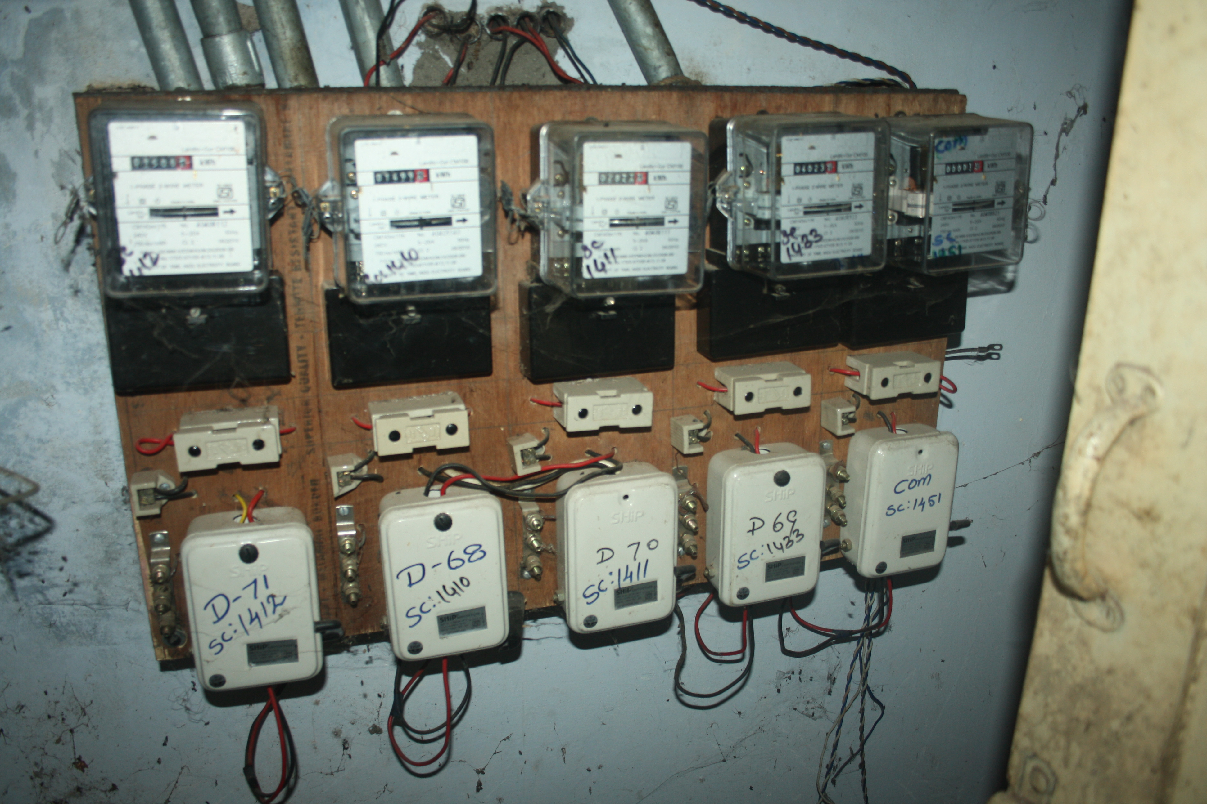 Electricity meters in India for a single storey government apartment